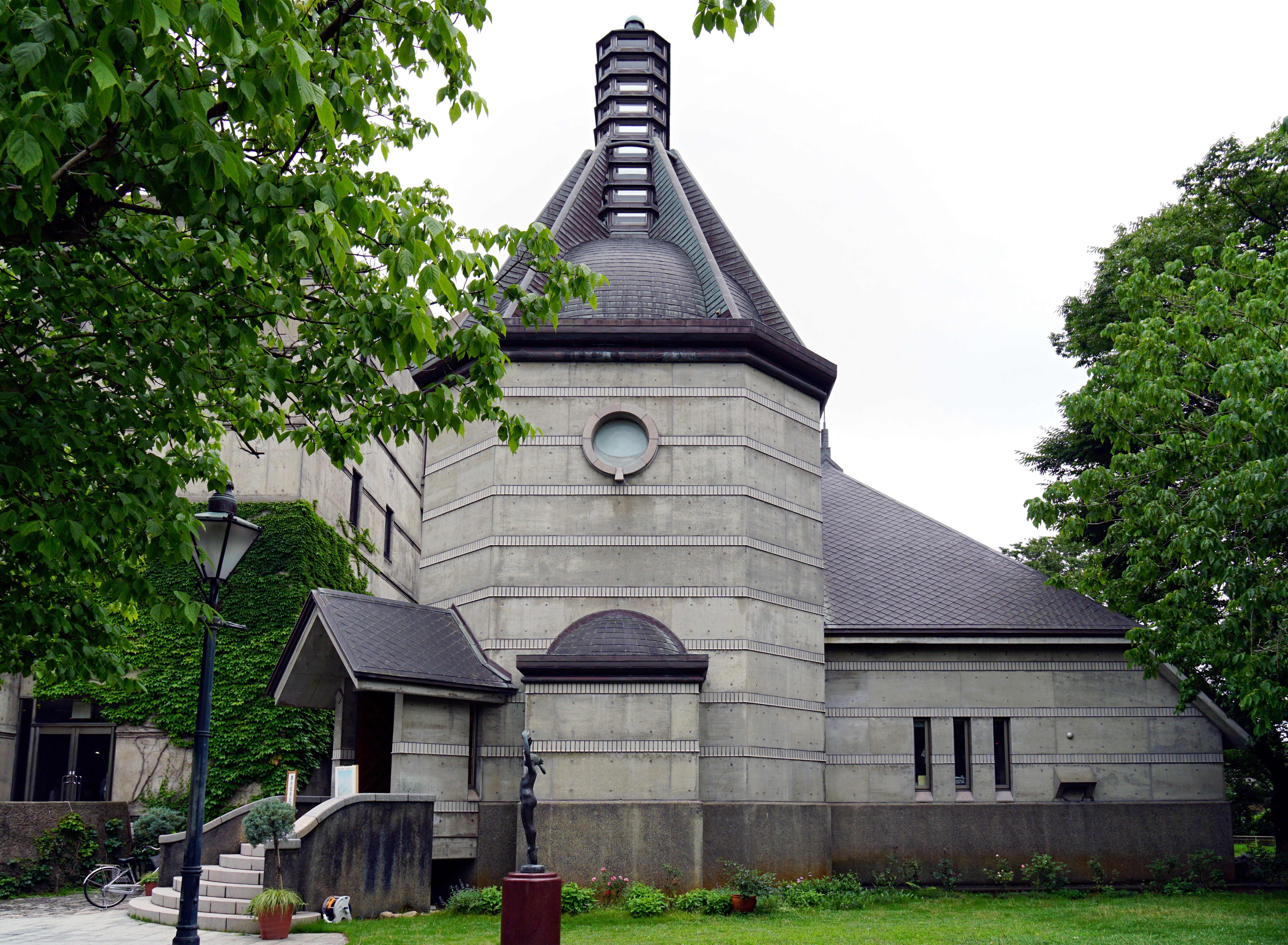 Koji Fukiya Memorial Museum of Art in Shibata, Niigata prefecture, Japan.